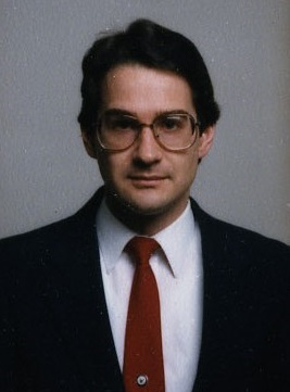 Don Eberly , a Whitehouse staffer